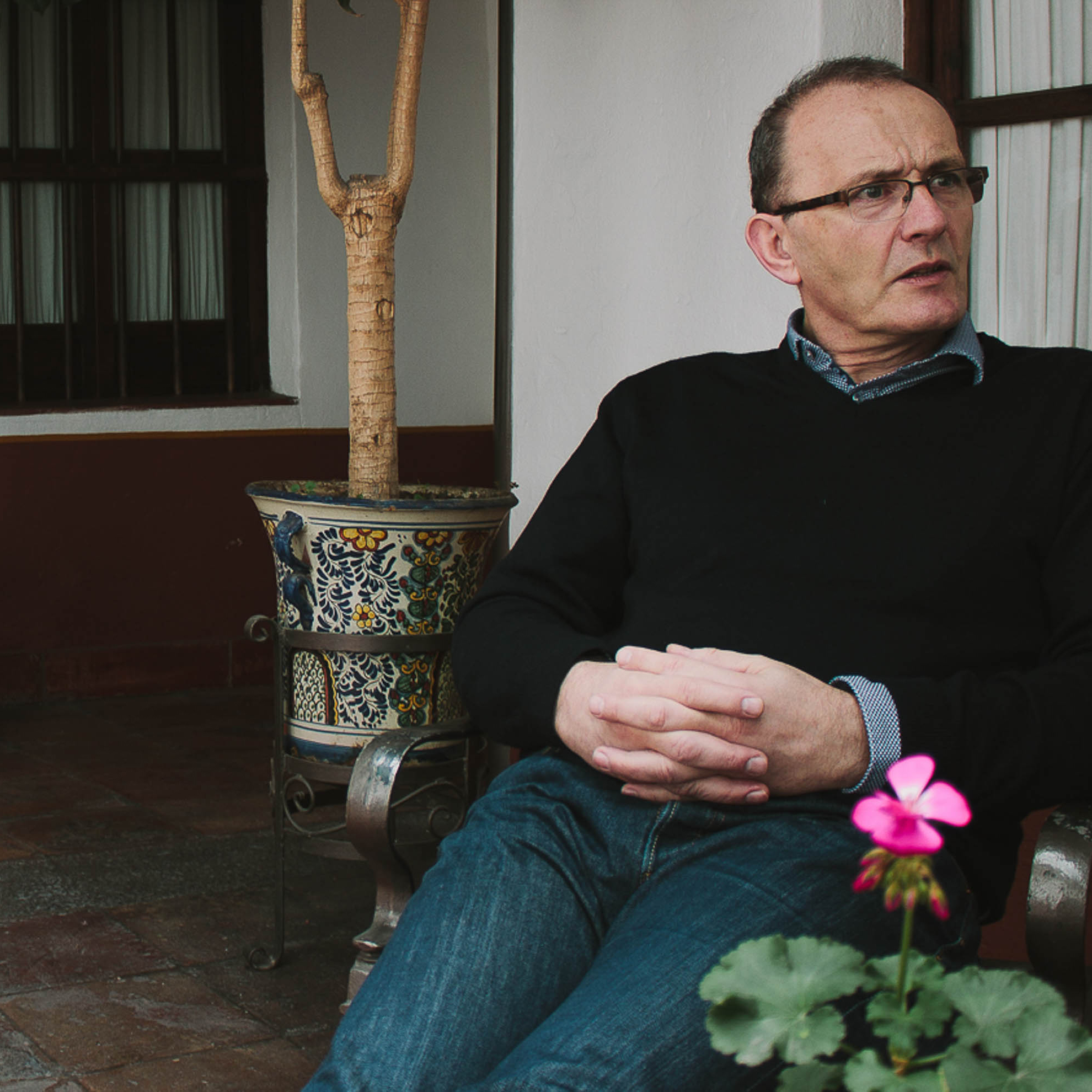 Ambulante Online Interview to Mathias Von Gunten. Meson del Alferez Hotel. 28 February, 2015. Xalapa, Veracruz, Mexico. Picture by Luis Fernando Soni.